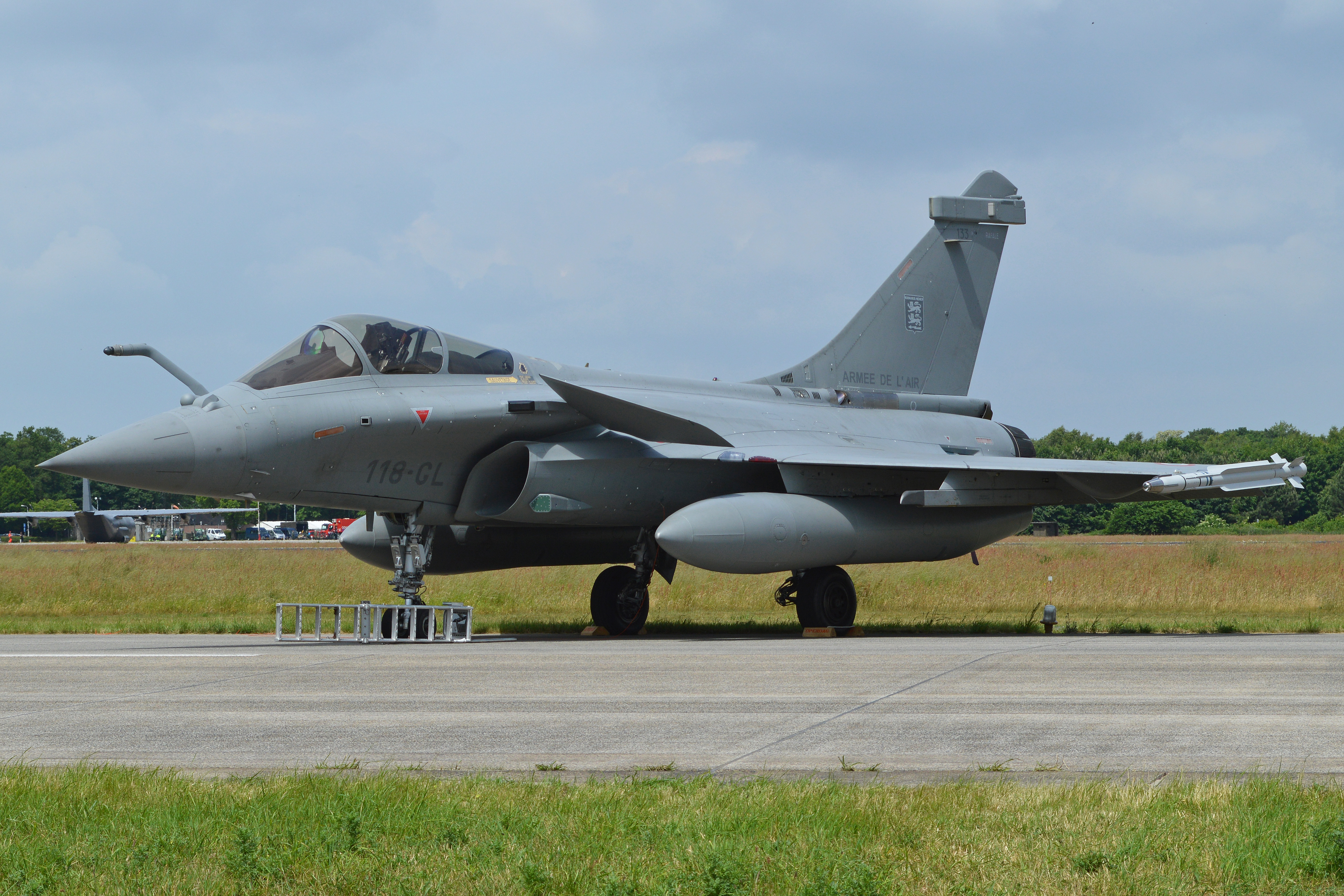 Operated by EC02.030, French Air Force. c/n 105 (according to the Scramble website). Seen parked on the main flightline / static line at the '100th Anniversary of Dutch military aviation'. Volkel Airbase, Netherlands. 14-6-2013